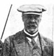 Gerard De Geer (1858 - 1943) Part of the photo expedition members in North America in 1920